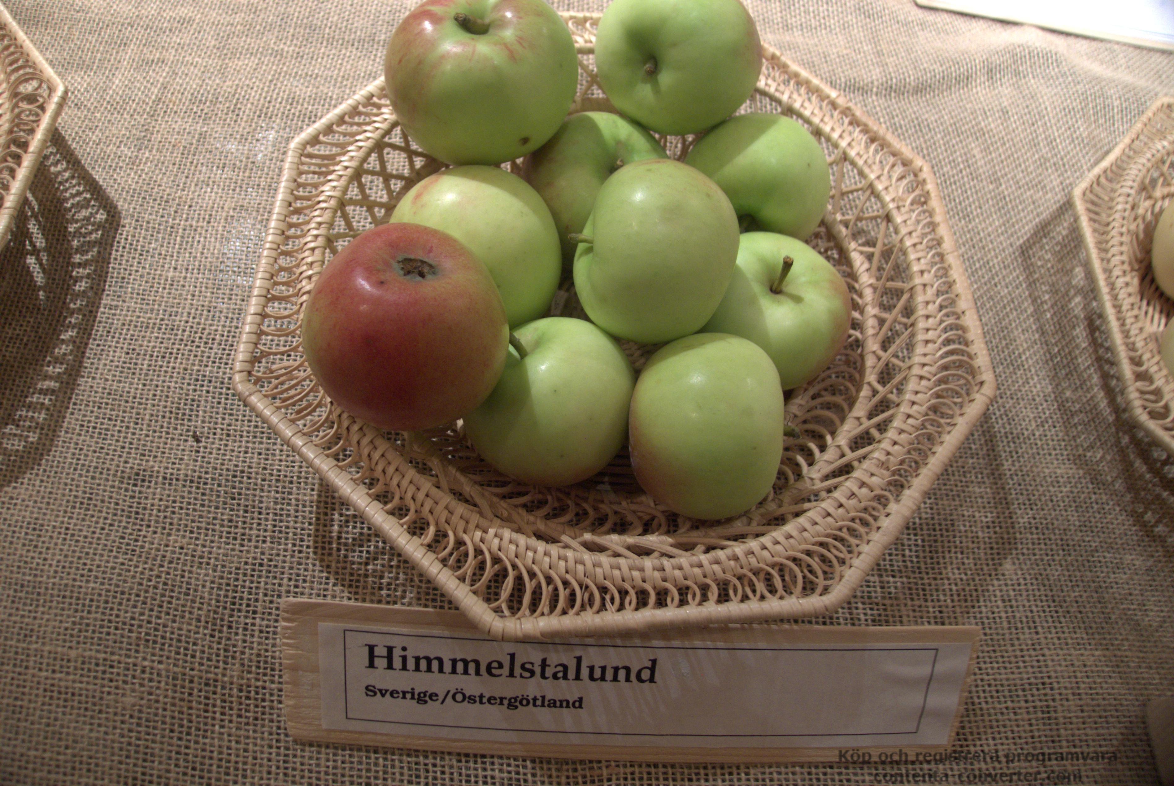 An apple of the variety Himmelstalund